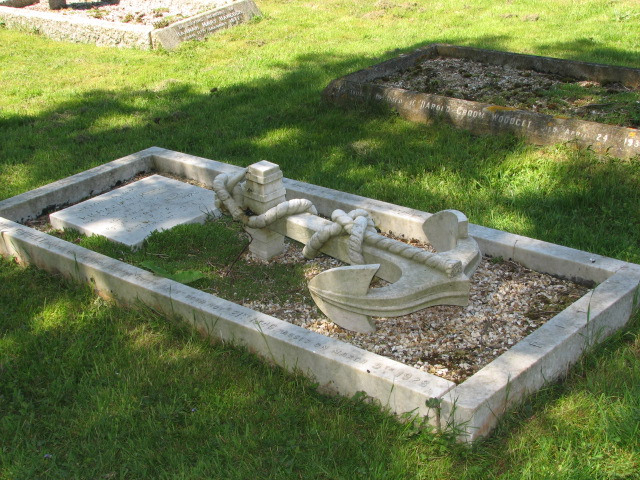 St Margaret's church - churchyard Grave of Richard Woodget, Master of the Cutty Sark (b. 1. Nov. 1846, d. 5. March 1928)